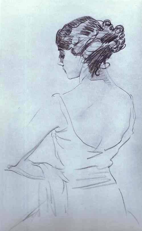 Portrait of Ballet-Dancer T. Karsavina. 1909. Pencil on paper. The Tretyakov Gallery, Moscow, Russia.